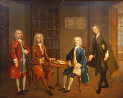 Four significant figures in the growth of Bath, Somerset. From left Richard Jones (clerk of works at Prior Park), Ralph Allen (owner of Prior Park), Robert Gay (MP and landowner), and John Wood the Elder (architect)